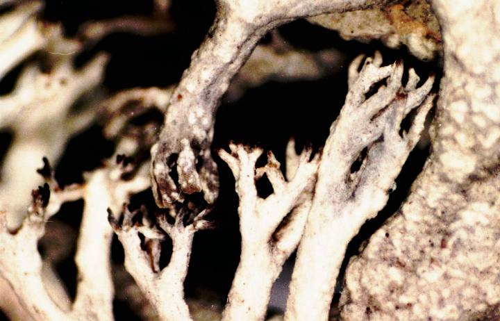 Cladonia amaurocraea (Flörke) Schaer., 1887 (photograph of a herbarium specimen taken through a dissecting microscope (x20) showing tips of podetia) Growing in open sand of an old field disturbed by fire near Pellston Campground, N side of Robinson Road, Emmet County, Michigan, USA; collected and identified by Richard E. Riefner (No. 81-260, 26 Jun 1981); specimen is now in the Lichen Herbarium of the New York Botanical Garden.